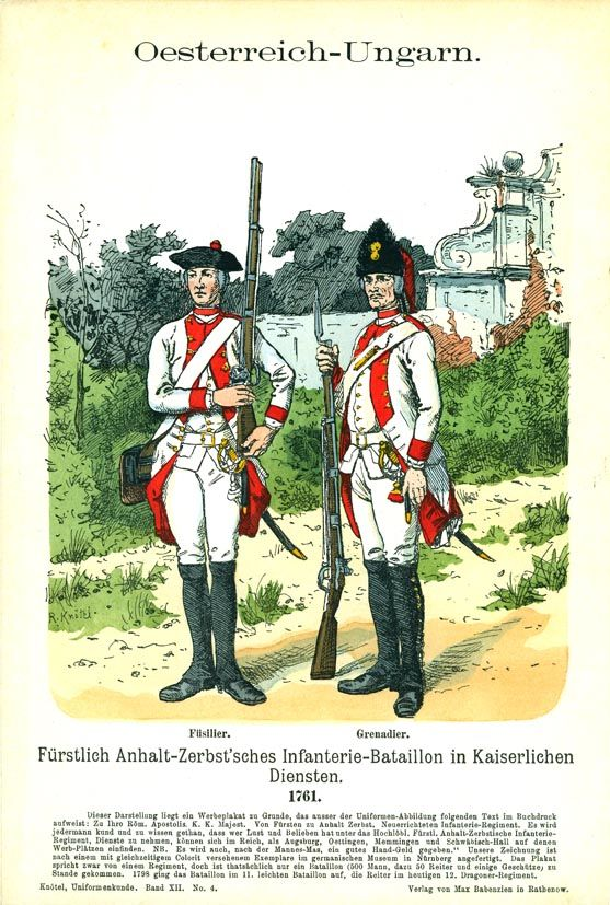 Austrian Inf Bat Anhalt-Zerbst, engraving by R. Knötel